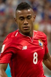 Édgar Yoel Bárcenas